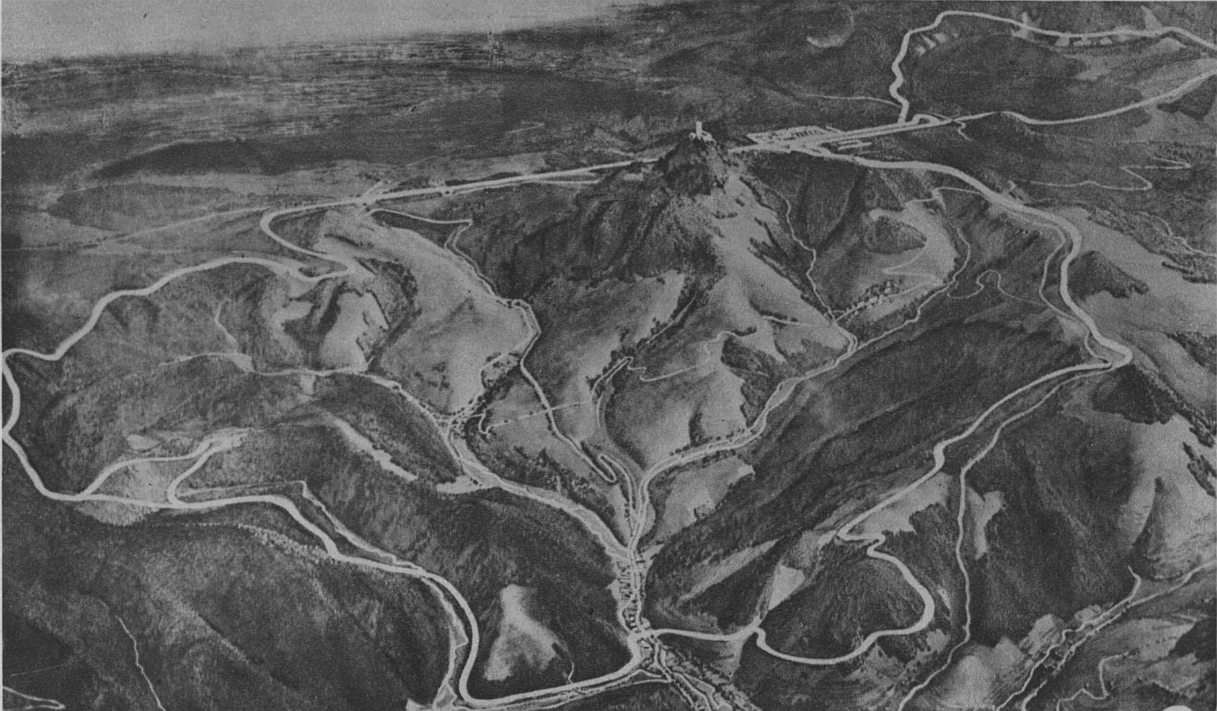 Nürburgring (Circuit Schedule 1926)